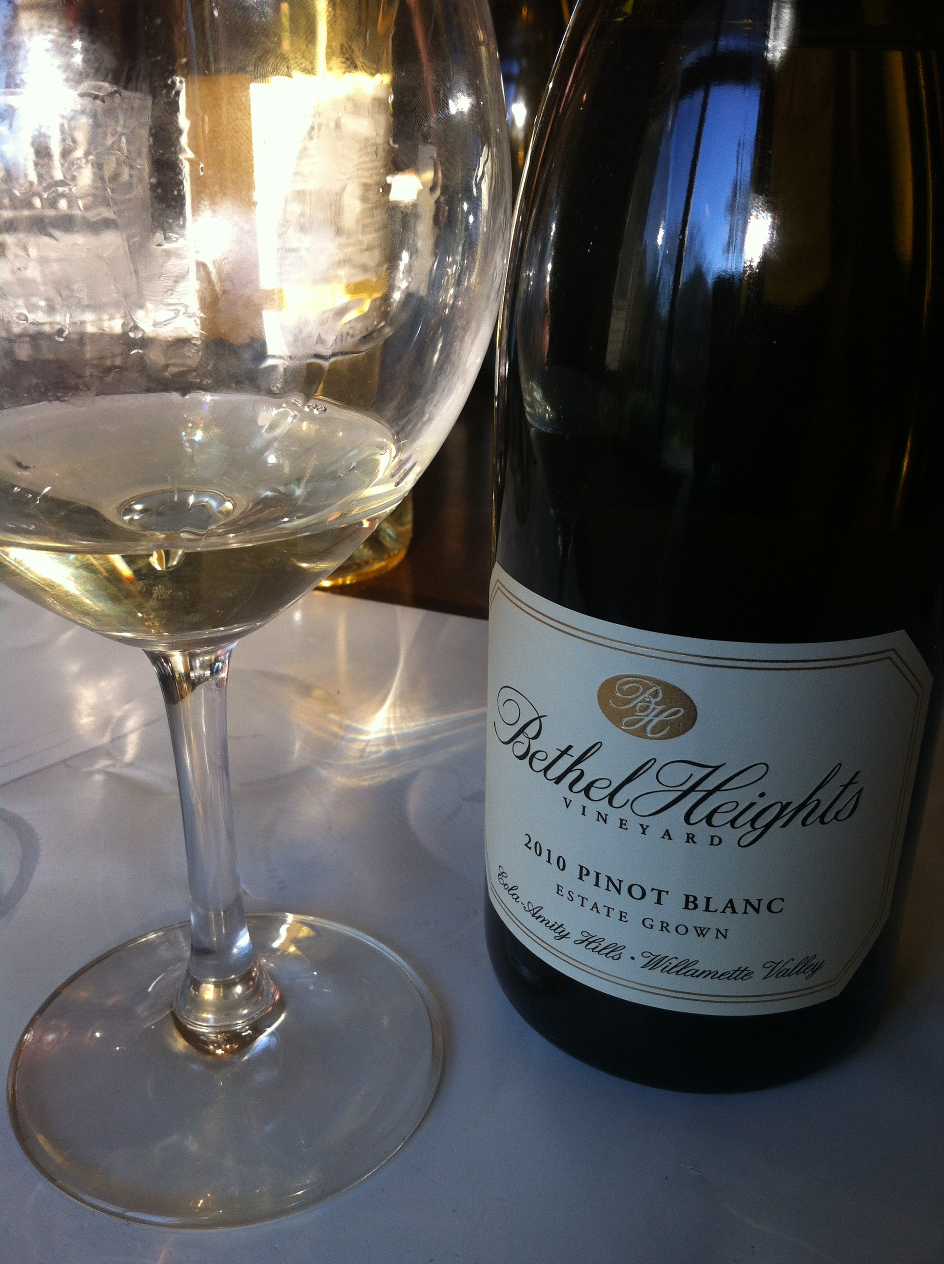 Oregon Pinot blanc from the Willamette Valley